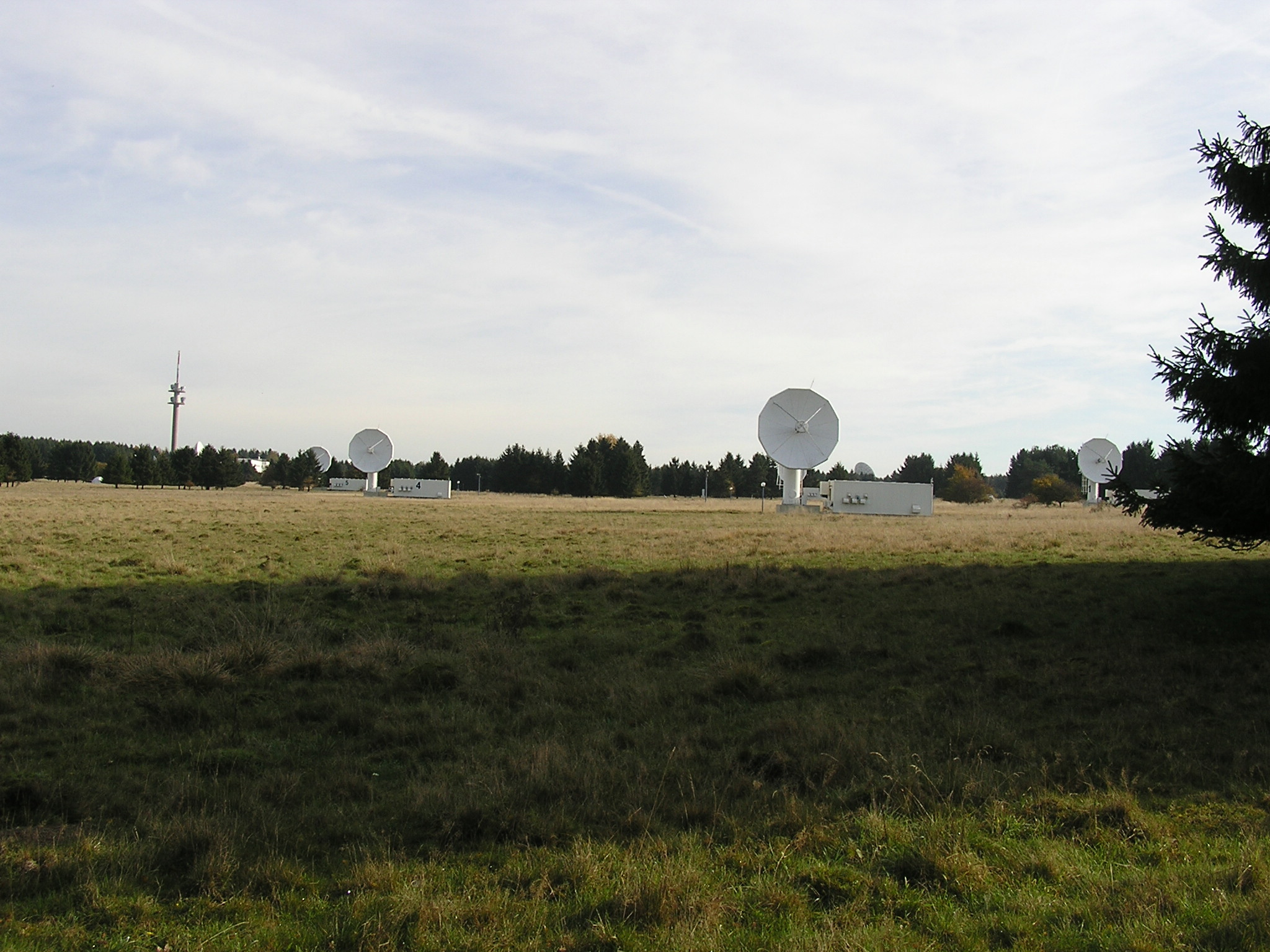 Ground communication station Usingen, Germany, run by T-Systems